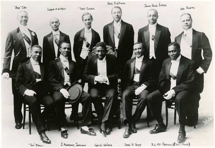 The Frogs African American theatre and music professional club, 1908.